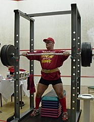 The World's Fastest World Champion Duration Squat Lifter.Mr.Remarkableman